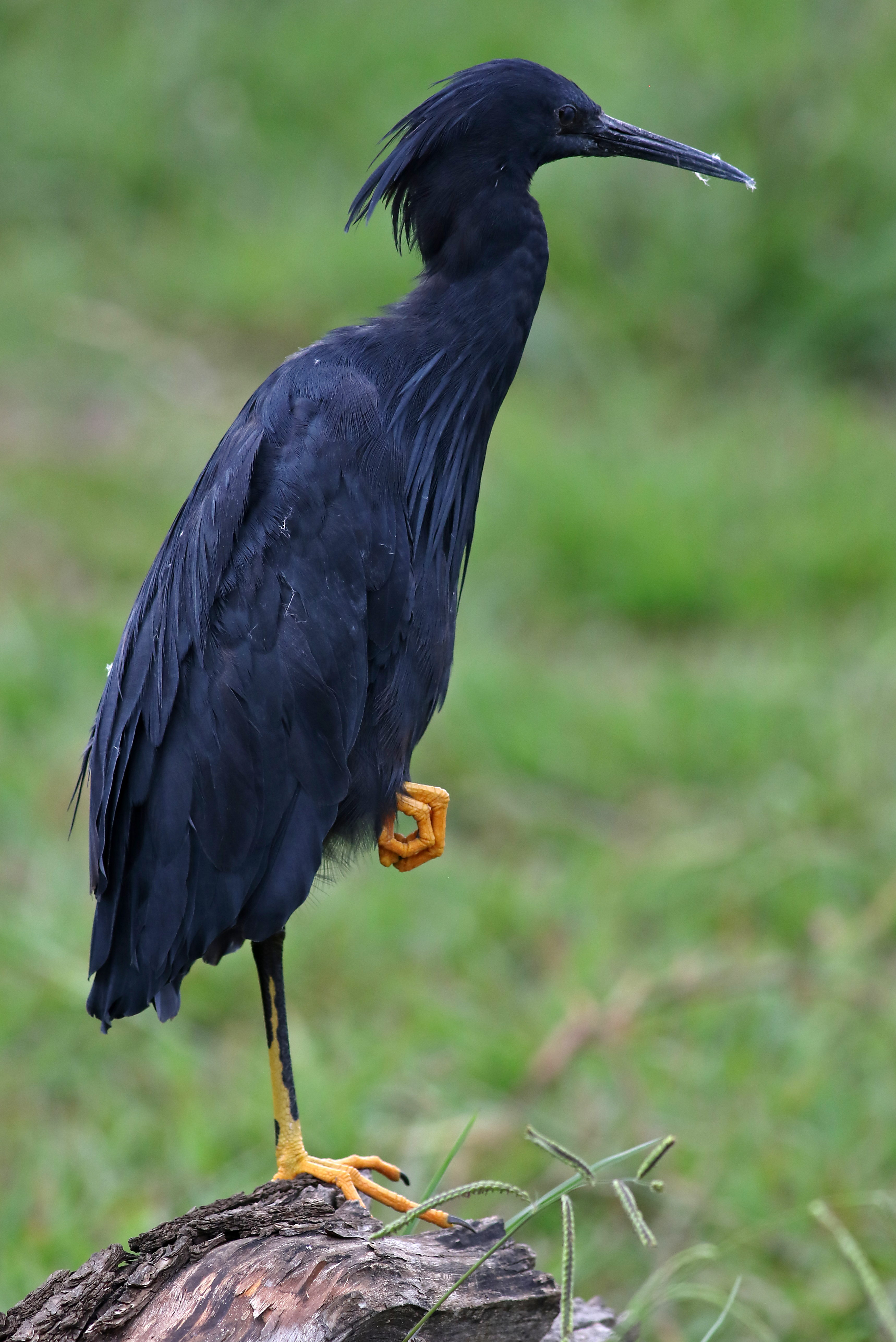 Black heron, Egretta ardesiaca, at Marievale Nature Reserve, Gauteng, South Africa